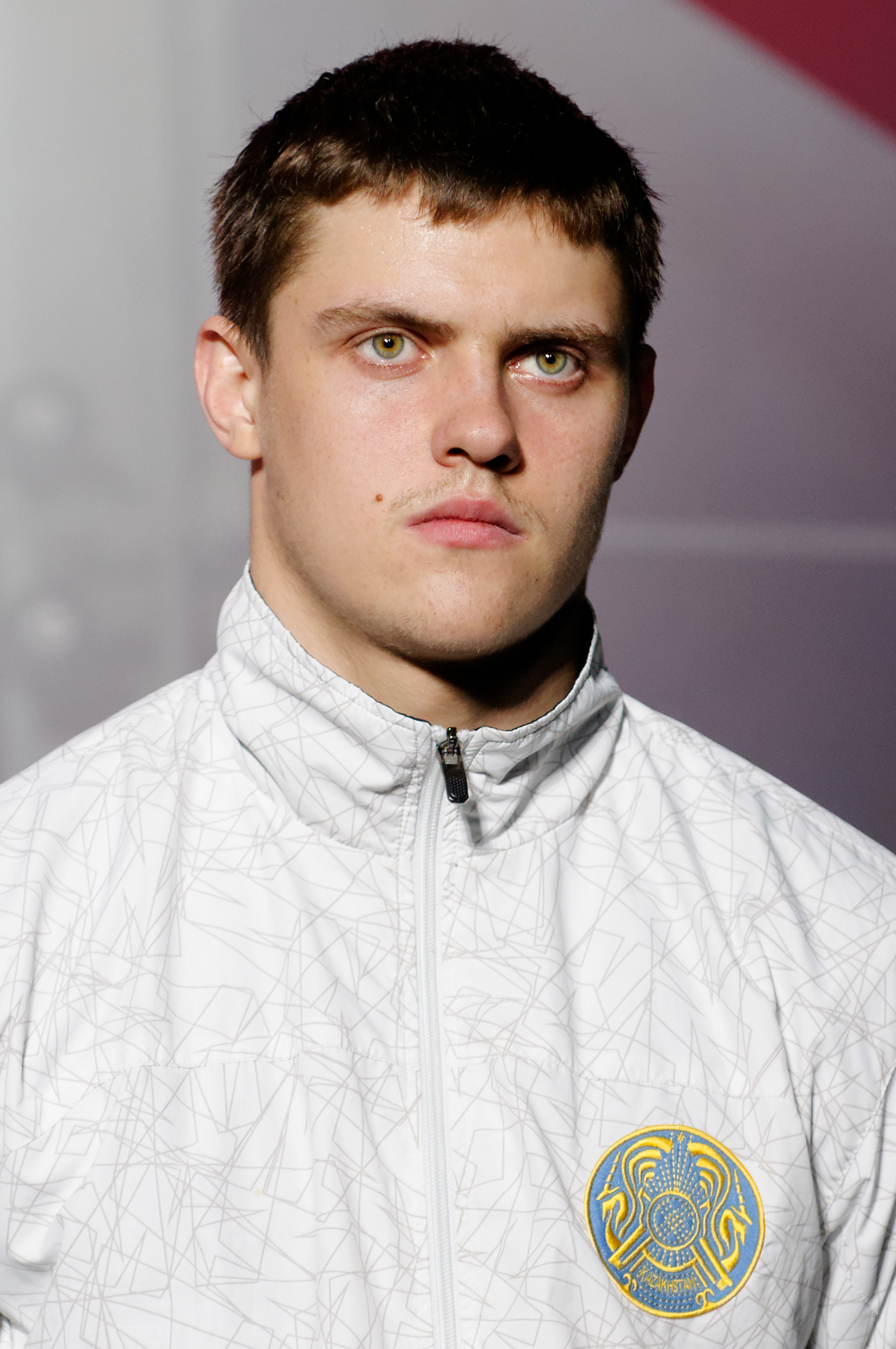 Kazahkstani fencer Dmitriy Alexanin, semi-finalist of the Challenge Réseau Ferré de France–Trophée Monal 2012.